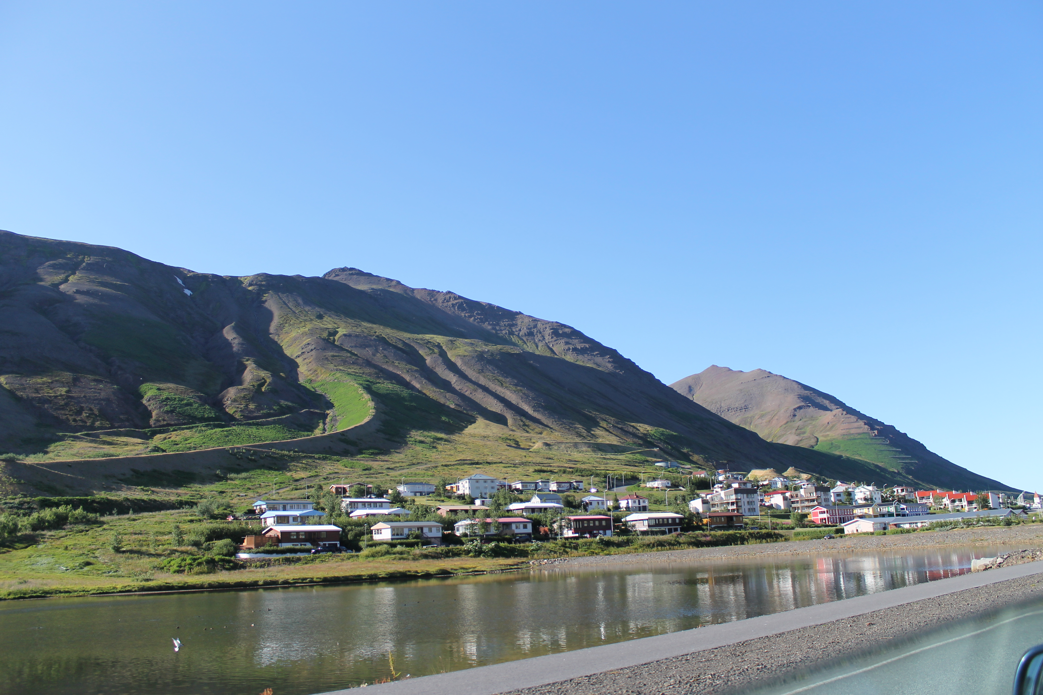 Avalanche barriers, Siglufjörður, Northern Iceland.